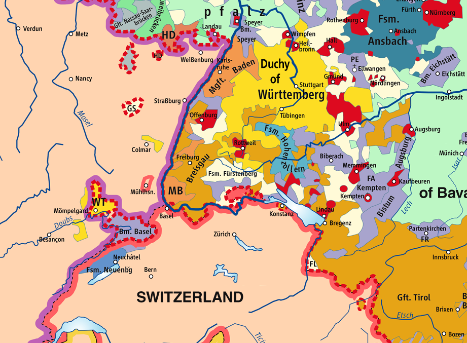 cut out territories along the east bank of the Rhine